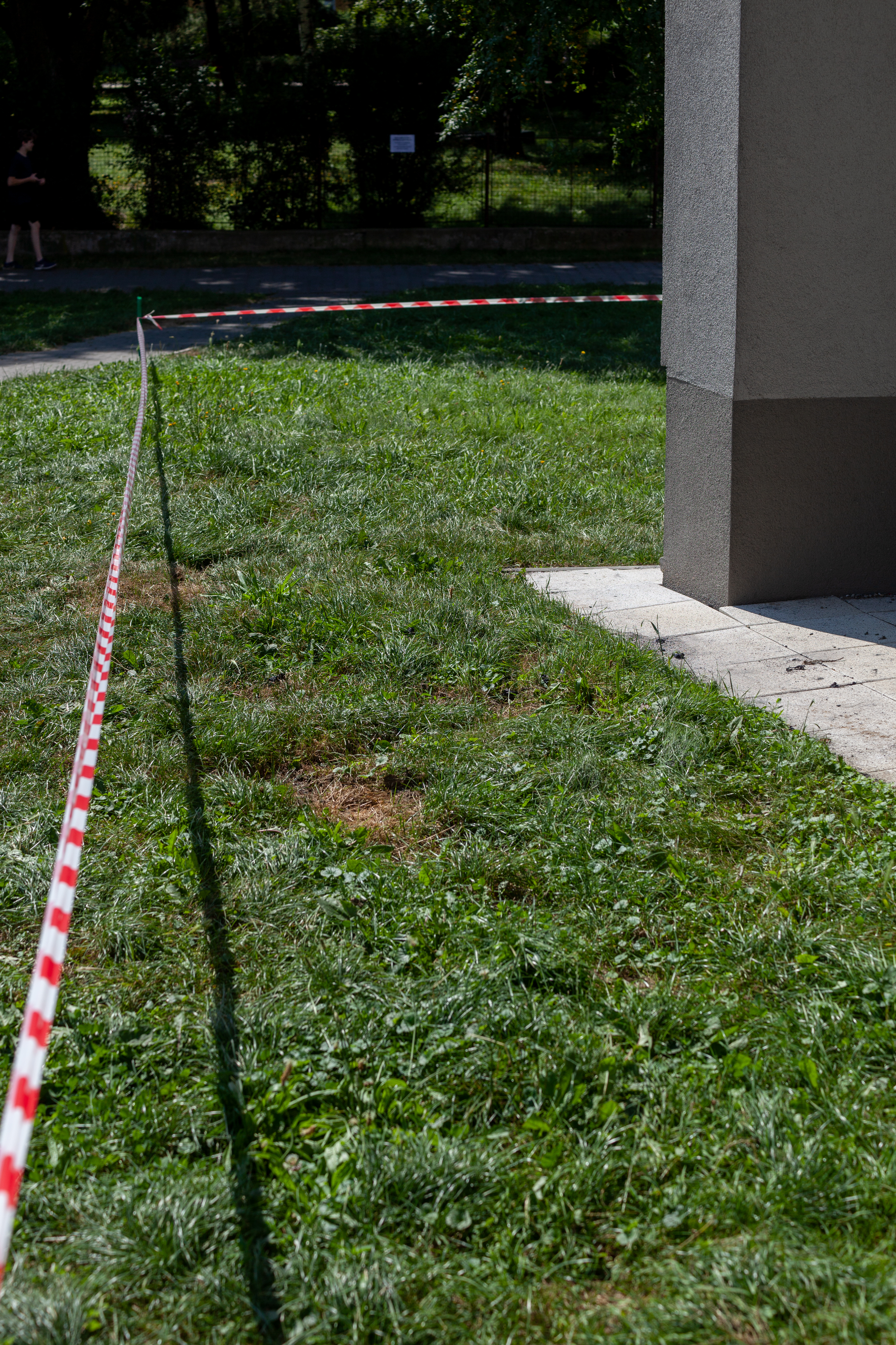 2020 Bohumín arson attack, Czechia